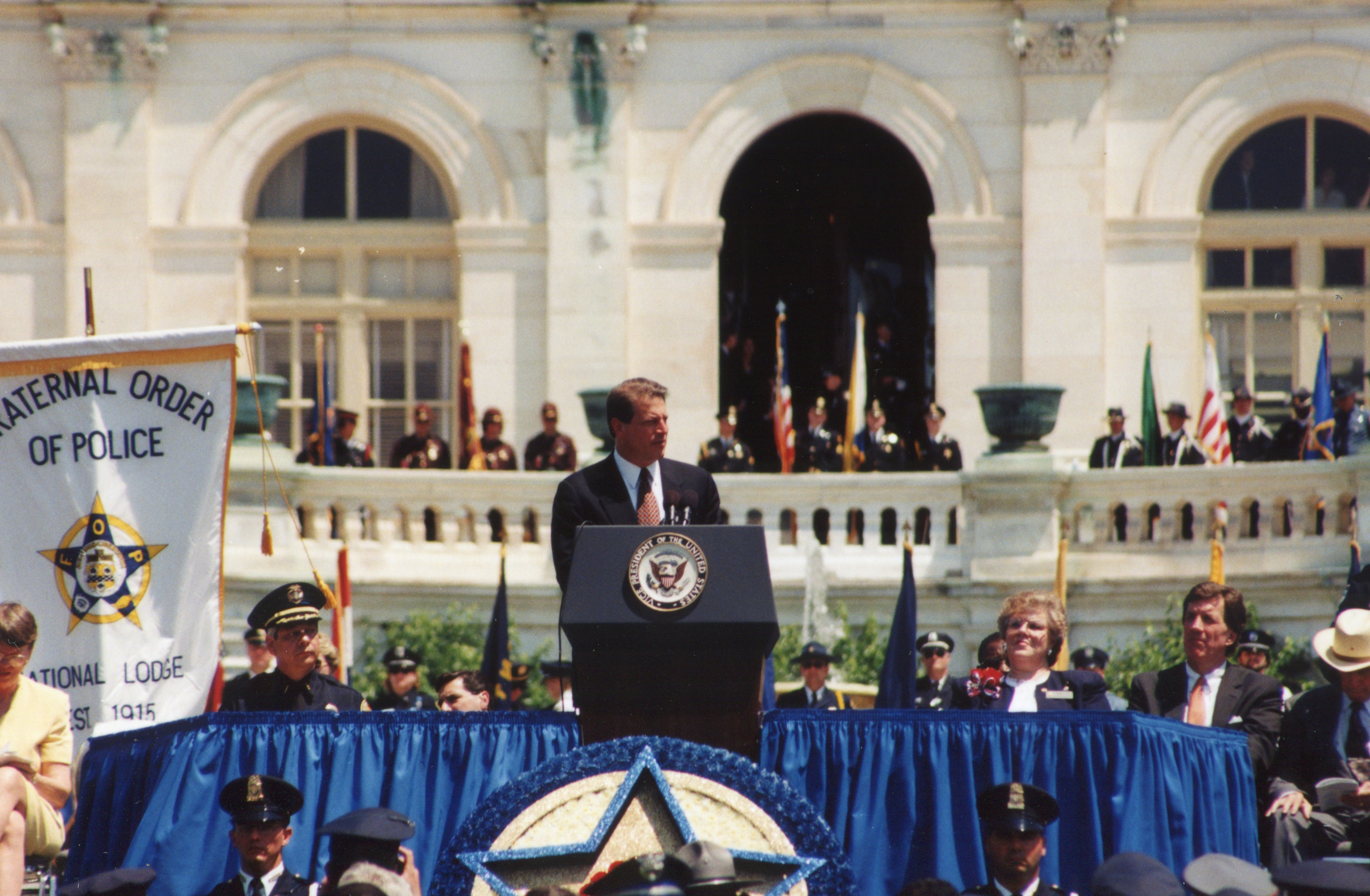 17th Annual National Peace Officers' Memorial Day Services on the West Lawn of the US Capitol Grounds in Washington DC on Friday, 15 May 1998 by Elvert Barnes Photography Vice President AL GORE NATIONAL PEACE OFFICERS MEMORIAL at Visit NLEOMF National Police Week at Visit Elvert Barnes 1998 NATIONAL POLICE WEEK docu-project at